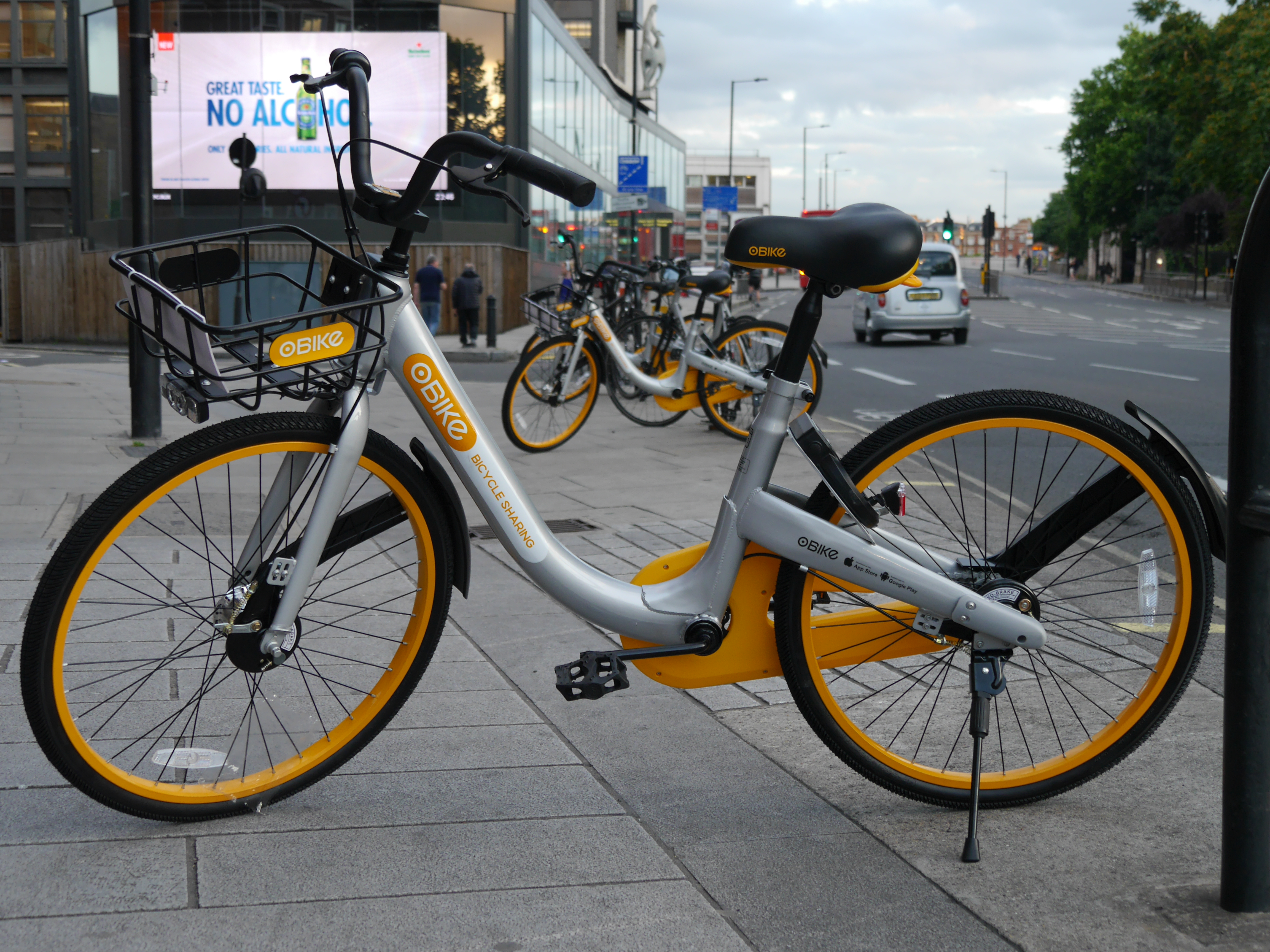 oBike, Putney Bridge Approach, London, 12 July 2017